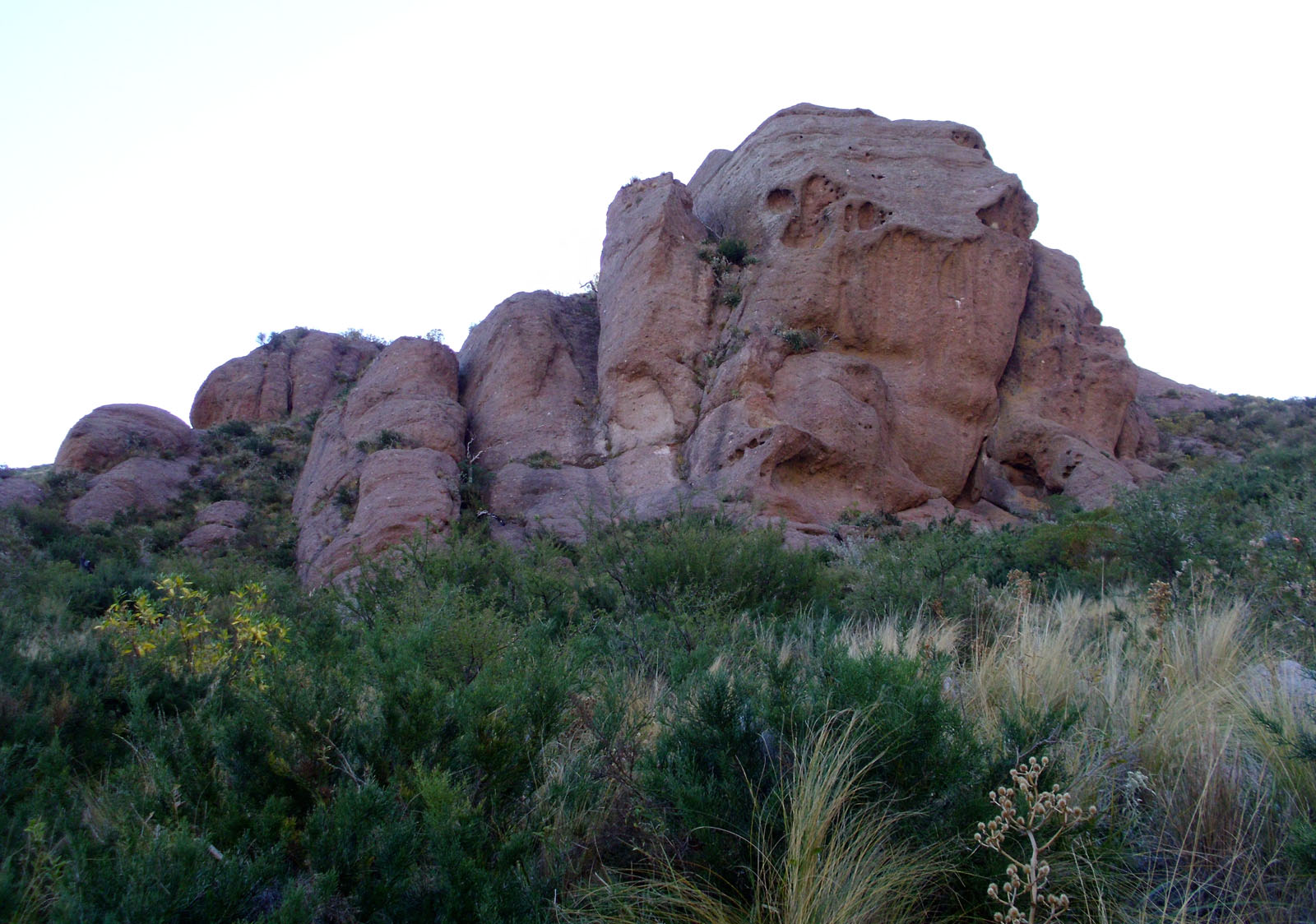 Rock on the mountain, named La Cabeza Del Soldado. Los Cocos, Córdoba, Argentina.